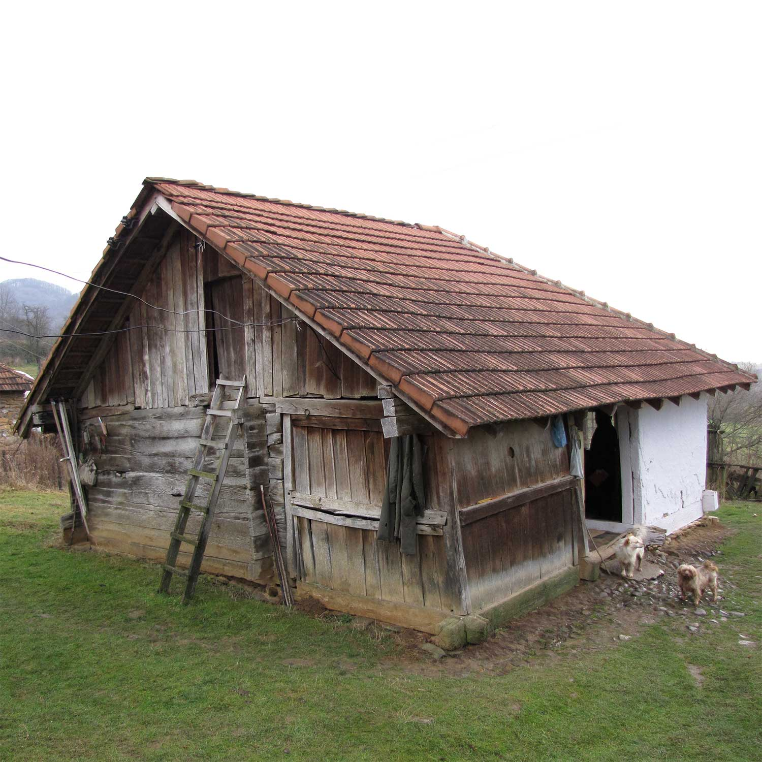 The house in Vrbeta, Knić